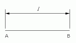 Koch Curve, level 0 by Sblive.